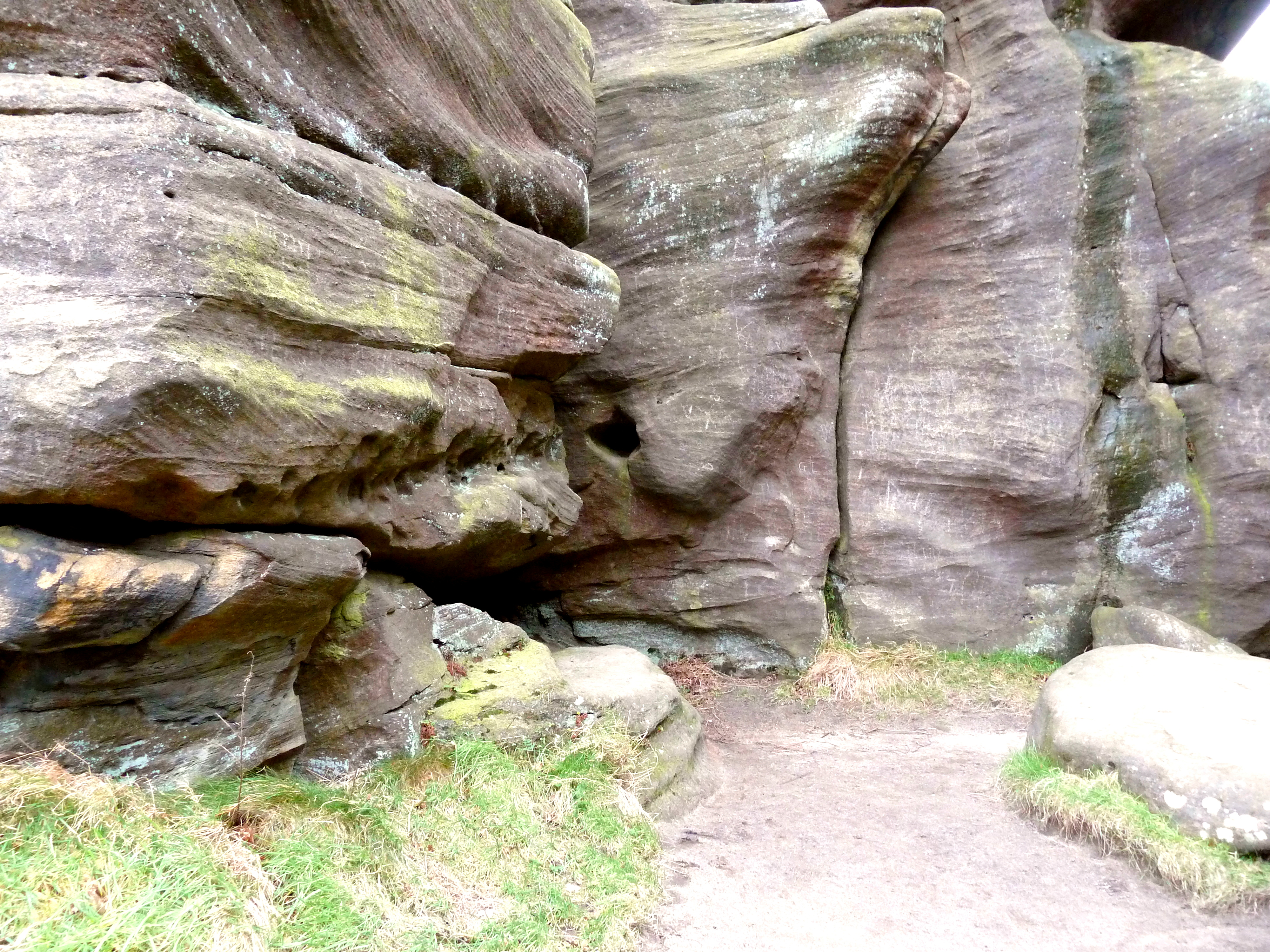 Brimham Rocks, North Yorkshire, England. Showing the front (east) end of the narrow hole which goes right through the Great Cannon rock. It is less than 1ft diameter at the widest circumference. You can just see a speck of light at the end. The National Trust had no record of the original Great Cannon, but luckily the local climbing clubs retained the name. Great Cannon, Cannon Rock or The Cannon is the oldest known named rock on this SSSI site. Showing the eastern side of the rock. The hole is near the centre of the image.